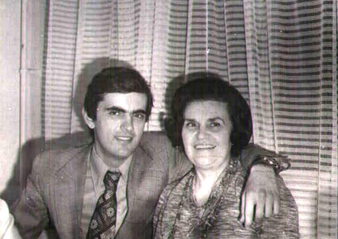 Composer Serban Nichifor and his mother, Dr. Livia Nichifor, to whom he dedicated much of his musical creations.